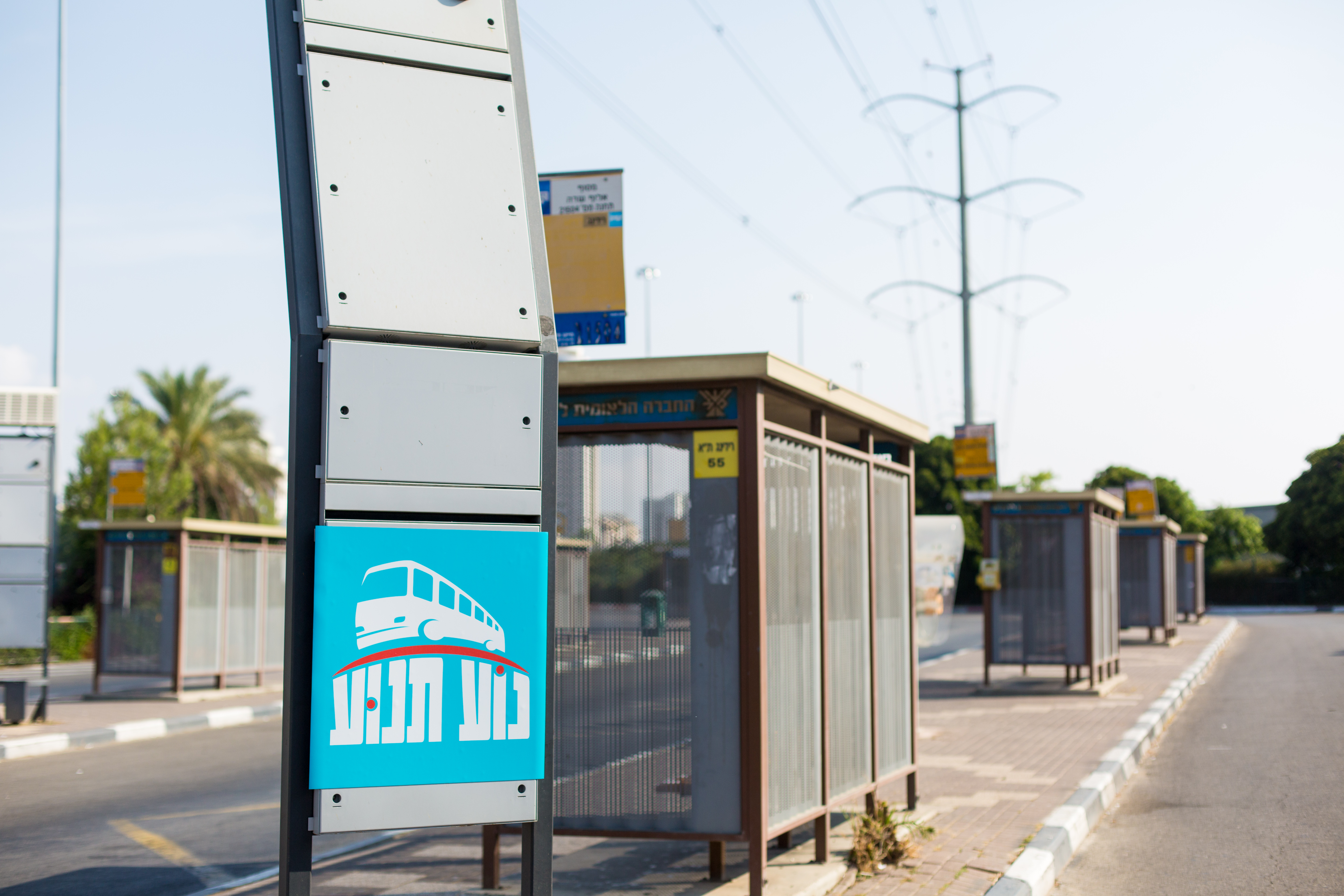 תחנת אוטובוס של אחד מקווי נוע תנוע, מסוף רידינג, תל אביב, יוני 2015